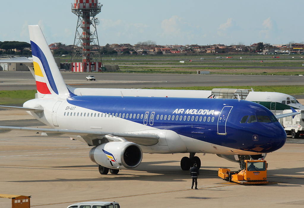 Air Moldova Airbus A320-200 at Rome-Fiumicino Airport (registration number ER-AXT)